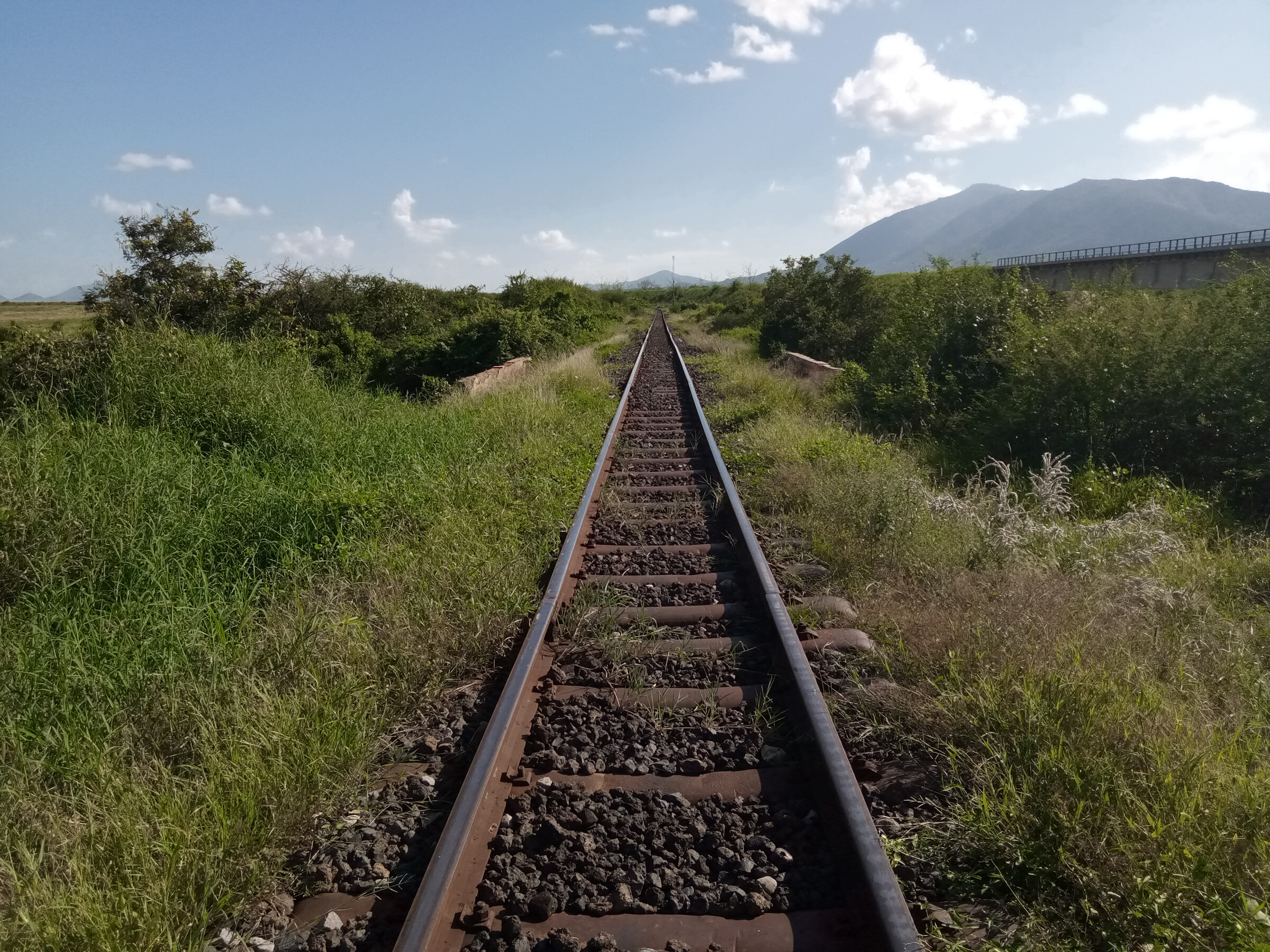 View of the old metre gauge railway line running from Mombasa to Nairobi in Kenya. This picture was taken at Ndii area close to the town of Voi. The guard rails seen on the right hand side of the picture are of the newer Standard Gauge Railway (SGR) line that runs parallel to the old railway line all the way from Mombasa to Nairobi. In the background are the Taita hills. Kiswahili: Picha inayoonyesha sehemu ya reli ya zamani inayotoka Mombasa kuelekea Nairobi nchini Kenya. Picha hii ilipigwa sehemu ya Ndii karibu na mji Voi. Upande wa kulia utaona daraja ambayo ni ya reli ya kisasa ya SGR. Reli ya SGR inafwata mkondo ulio karibu sambamba na ule mkondo wa reli ya zamani.